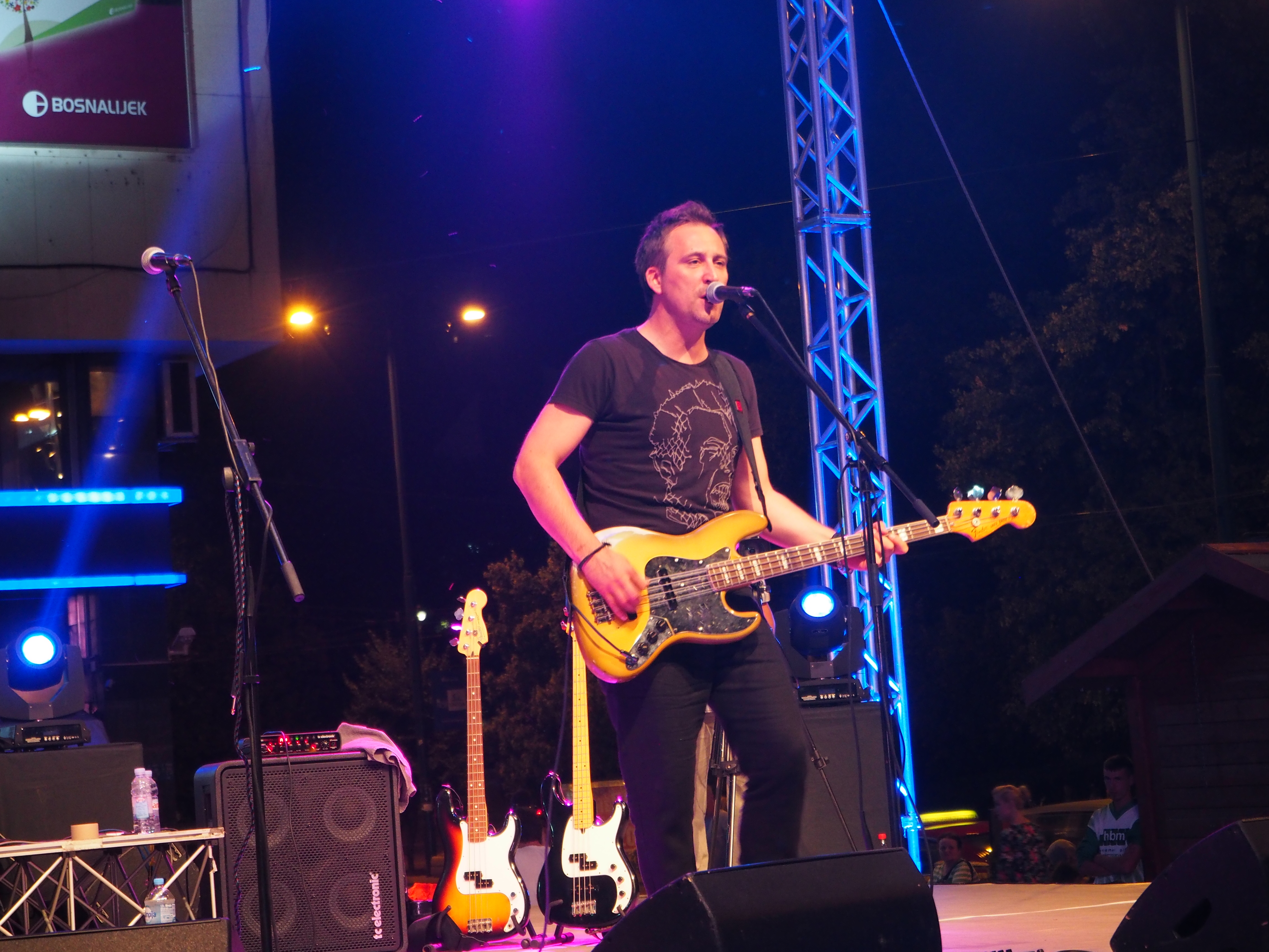 Almas Smajlović (Erogene zone) (Bosnian rock band) Baščaršijske noći Tour @ BBI, Sarajevo 29 July 2015